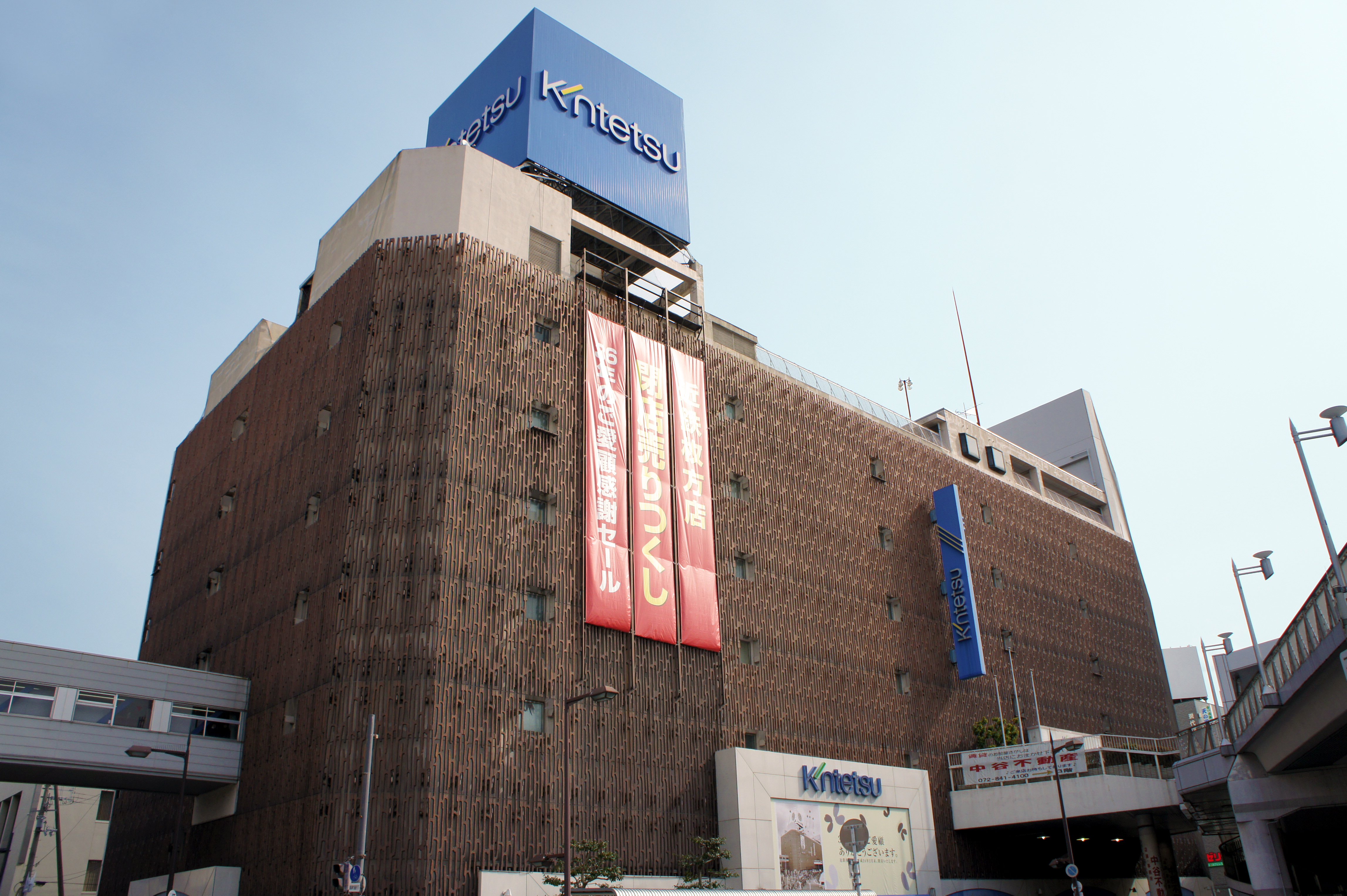 KINTETSU Department Store Hirakata, 12-2-101 Okahigashicho Hirakata-City Osaka Japan.